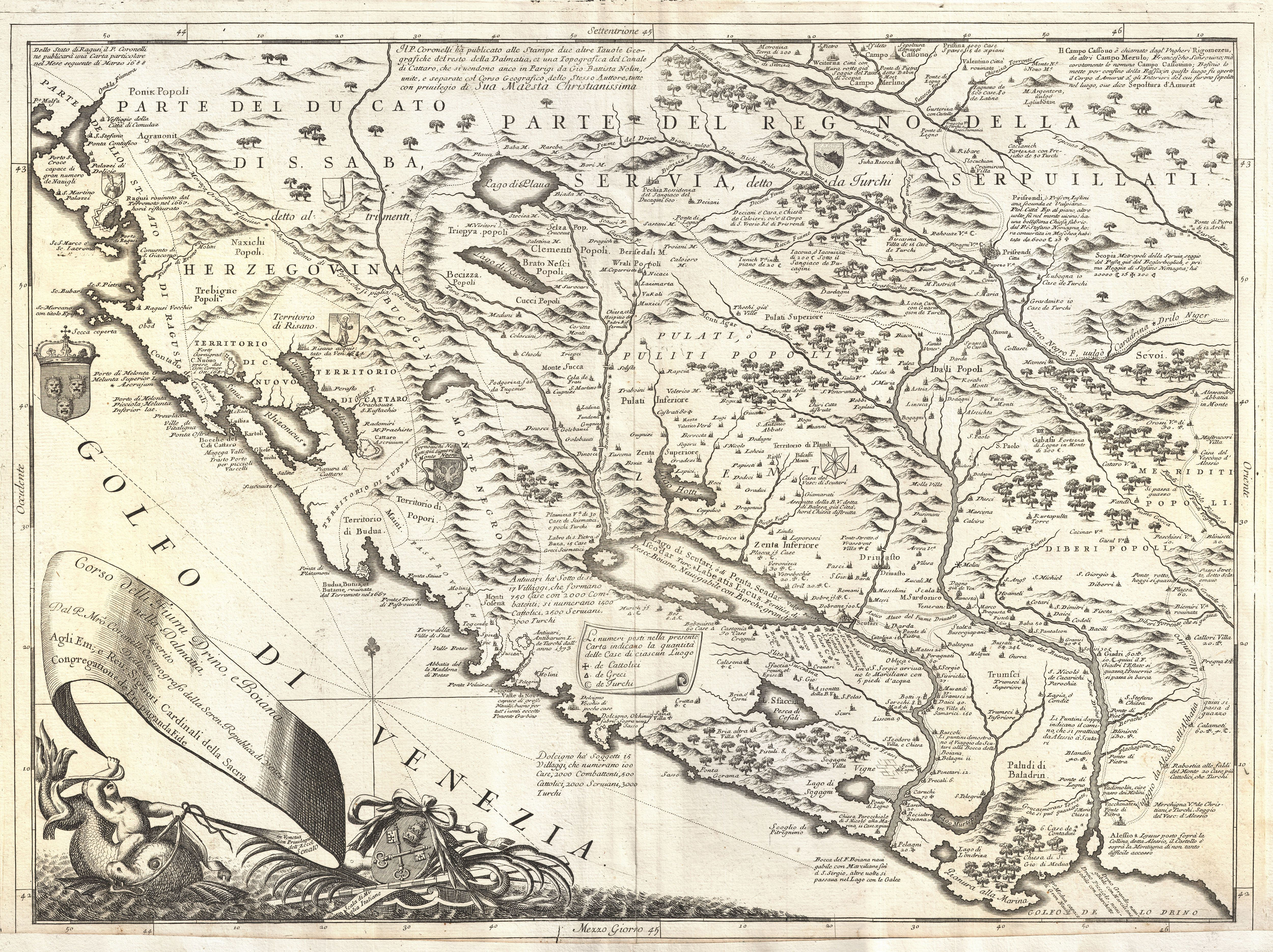 Vincenzo Coronelli - Repubblica di Venezia p. IV. Citta, Fortezze, ed altri Luoghi principali dell' Albania, Epiro e Livadia, e particolarmente i posseduti da Veneti descritti e delineati dal p. Coronelli, Venice, 1688.